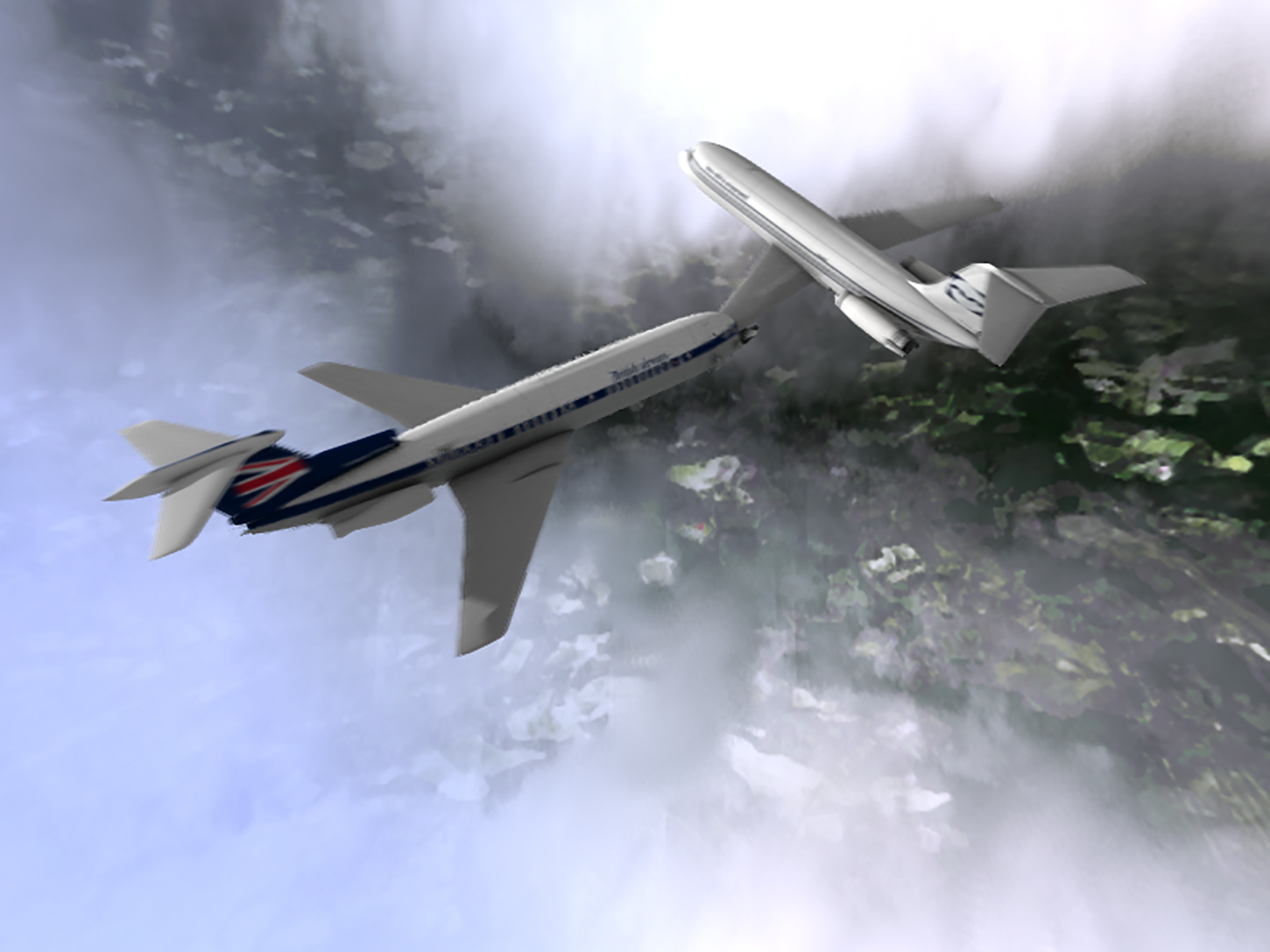 Image will eventually be of the 1976 Zagreb collision